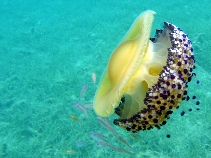 Sea monster, with friends